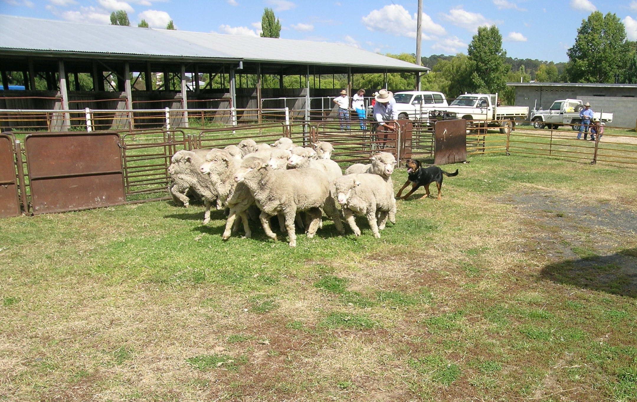 A Huntaway dog working Merino wethers in a yard dog trial at the Walcha Show.